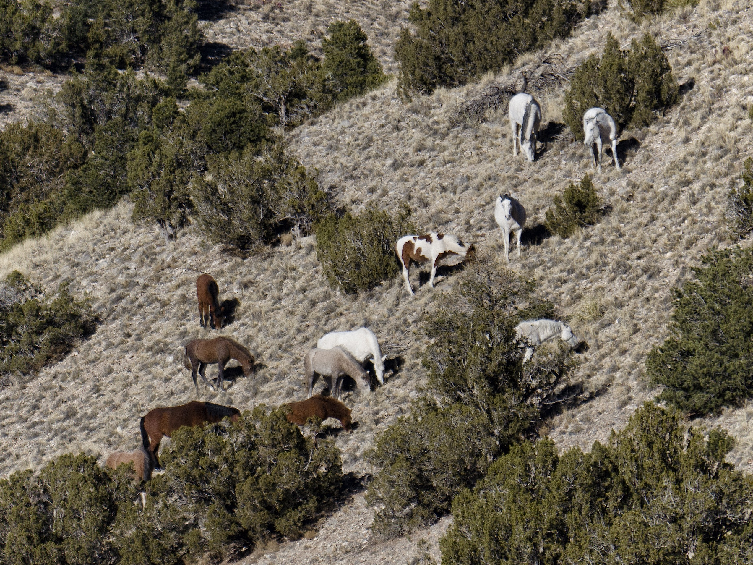 This morning, Christmas day, they were a few hundred yards away. There was a young colt, probably not much past newborn stage, that you can't see in this shot. It must be a hard life this time of year. There are now well over a hundred "wild" horses in the area. They are the source of some controversy. They eat the wild grass faster than it can renew itself, which will lead to erosion problems. Some local people put out water for them, while others put up fences to keep them out. The BLM doesn't have money to round them up, and even if they did, there is no place to take them except a slaughter house. Meanwhile, the population grows in time.